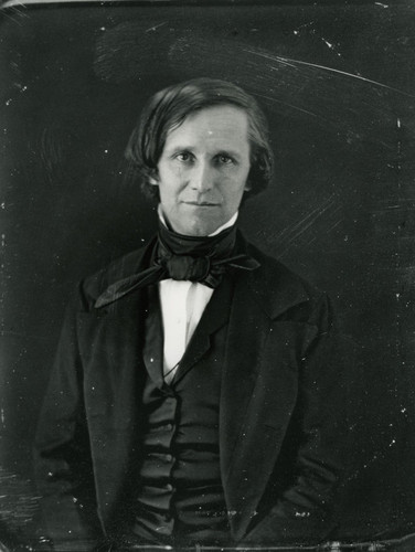 John B. Minor, a law professor at the University of Virginia, sits for a photographic portrait in 1859. Minor taught at the university from 1845 until his death in 1895.